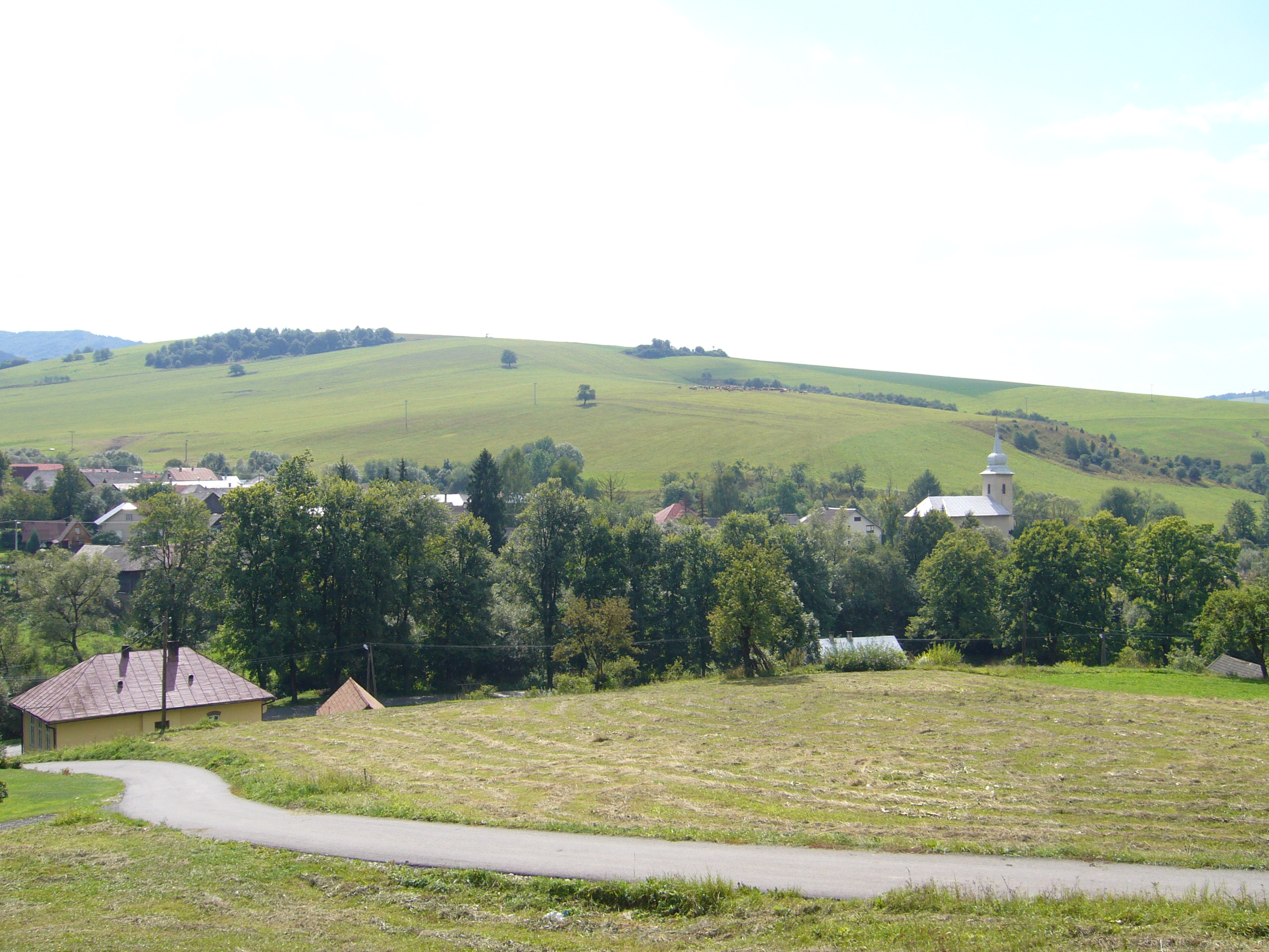 Polish-Slovak border - villages of Leluchów (Poland, foreground) and Ruská Voľa nad Popradom (Slovakia, background)